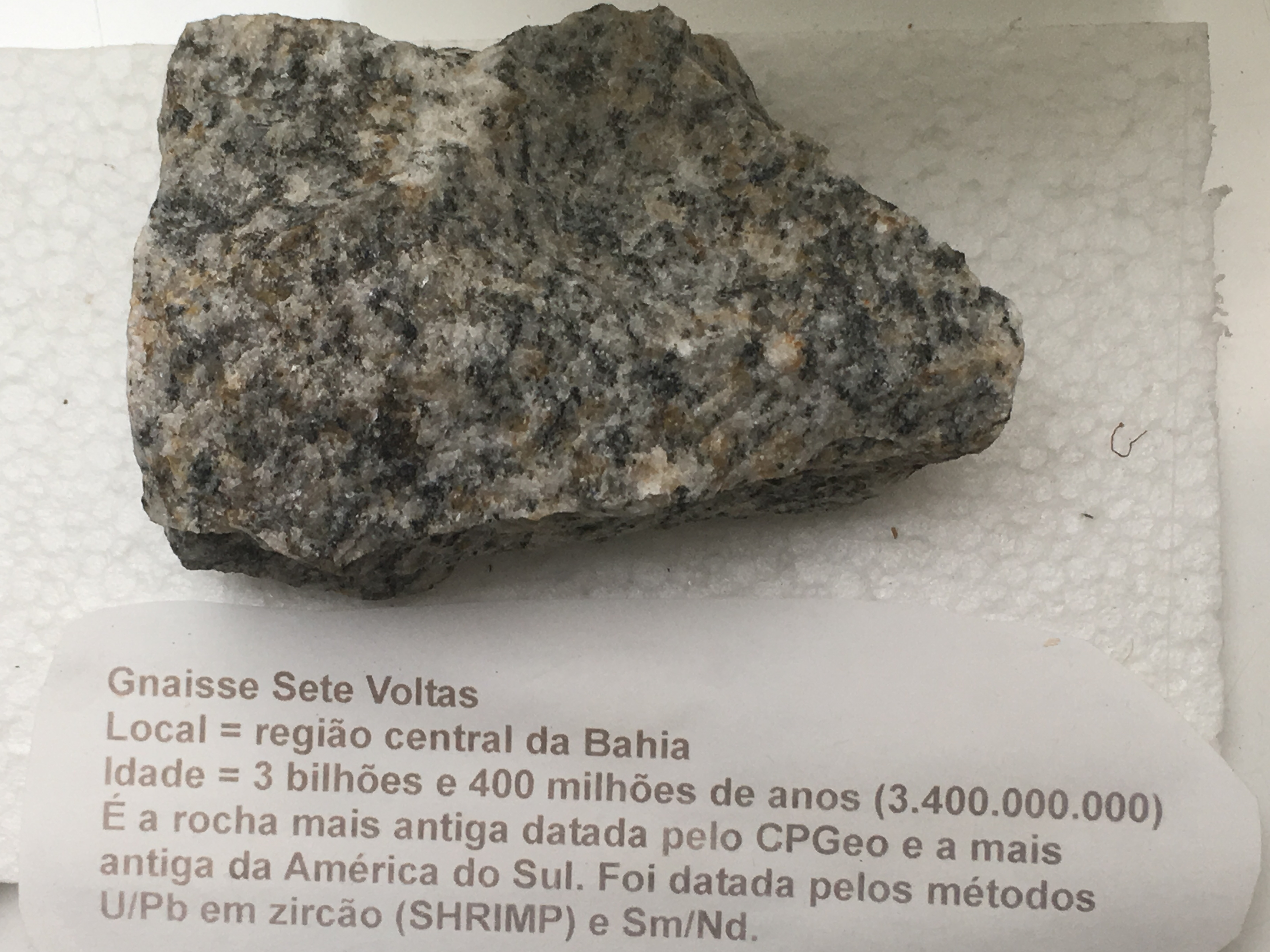 Gneiss Sete Voltas sample, the oldest rock outcropping in the crust of South America, circa 3,4 billion years old. On display at Instituto de Geociências, University of São Paulo, Brazil